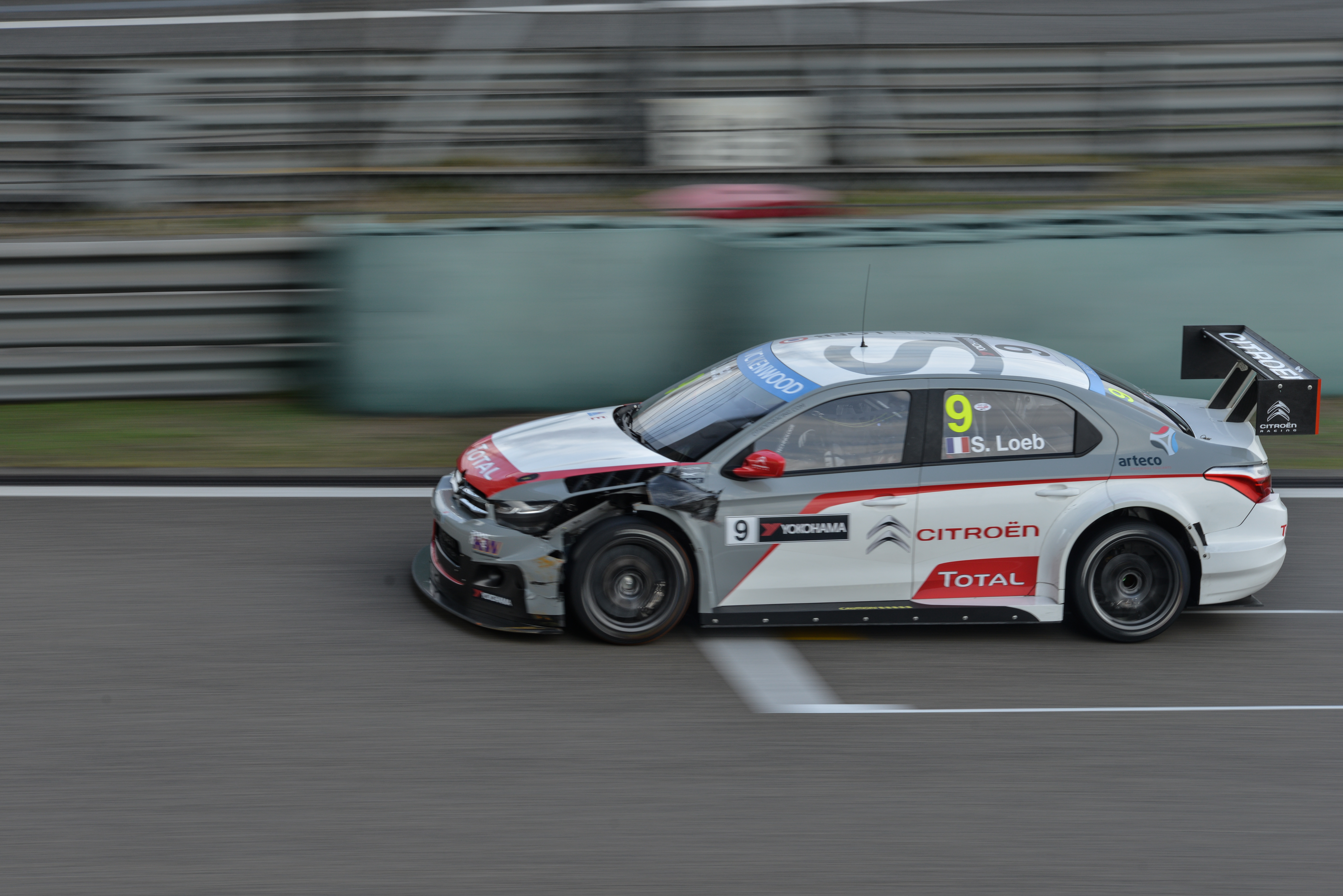 2014 WTCC Race of Shanghai - Sébastien Loeb